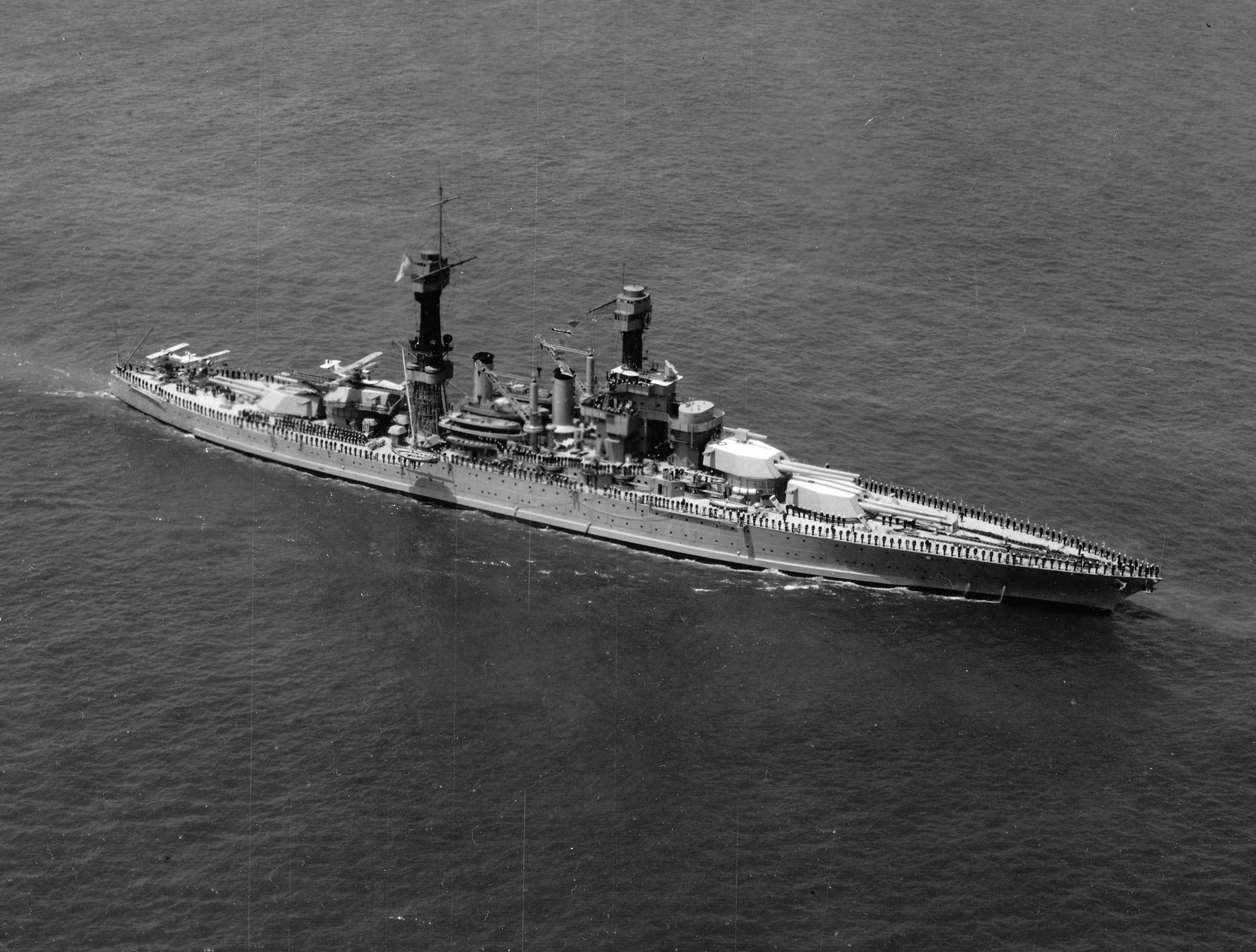 Aerial view of the USS Maryland during a presidential naval review in Hampton Roads, Virginia, June 4, 1927.